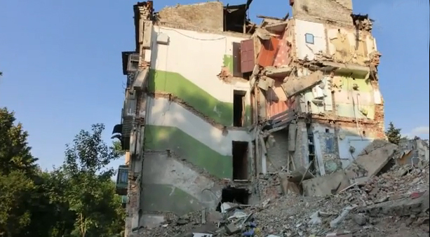 Damaged building in Snezhnoe, Donbass, at 14 Lenin Street, August 6, 2014.